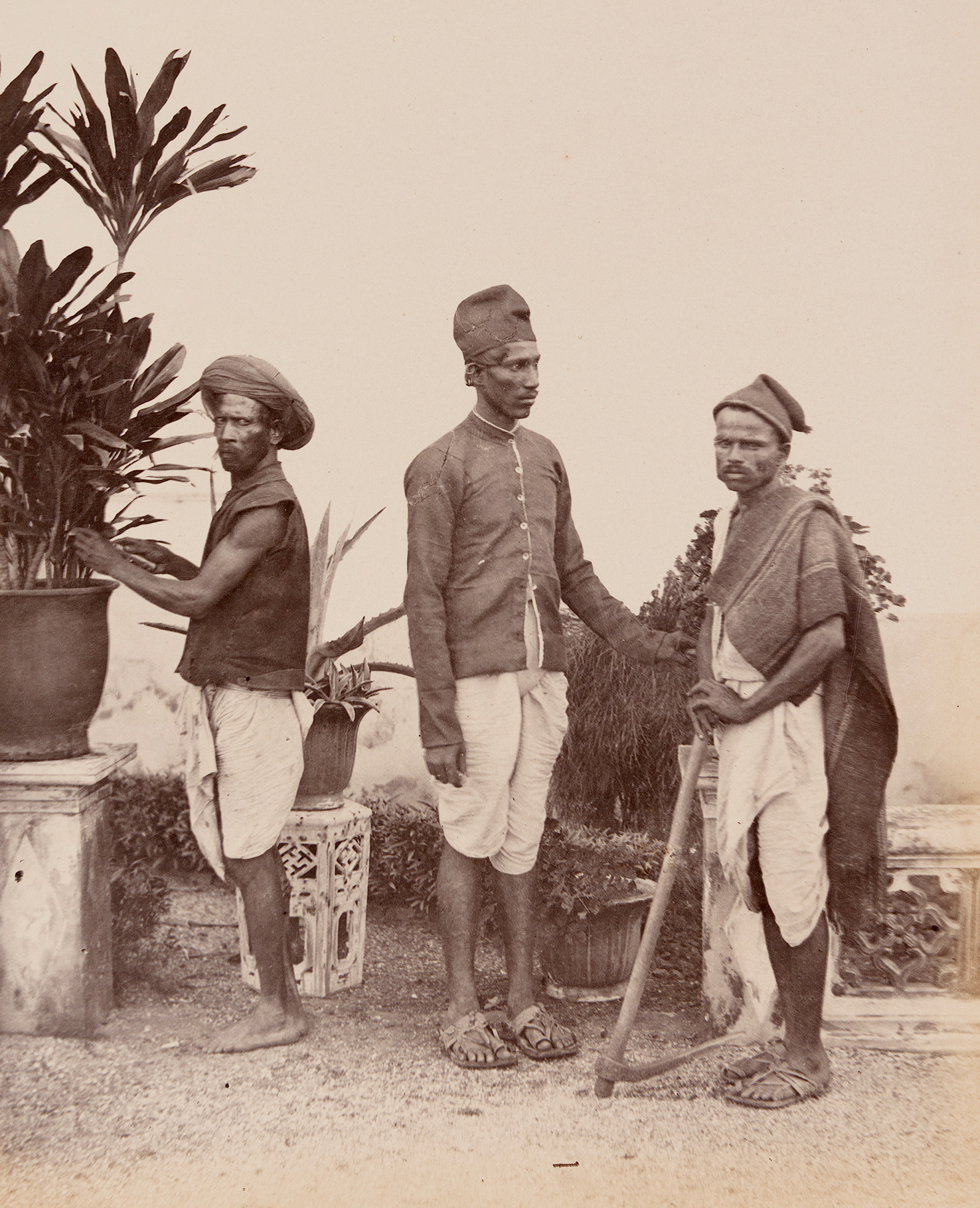 Title: Mallees, or Gardeners Alternative Title: [Malis, or Gardeners] Creator: Johnson, William Date: ca. 1855-1862 Part Of: Photographs of Western India Series: Photographs of Western India. Volume I. Costumes and Characters. Place: India Physical Description: 1 photographic print: albumen; 26 x 20 cm on 42 x 35 cm mount File: vault_ag2002_1407x_1_049_mallees_opt.jpg Rights: Please cite Southern Methodist University, Central University Libraries, DeGolyer Library when using this image file. A high-quality version of this file may be obtained for a fee by contacting . For more information, see: View Europe, India, and Asia: Photographs, Manuscripts, and Imprints